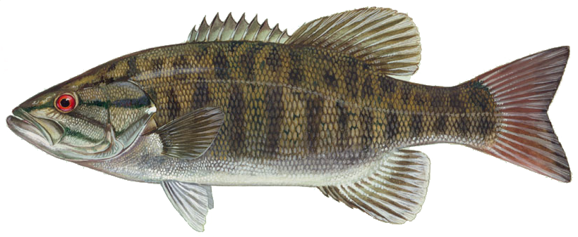 Transparent PNG of Smallmouth bass (Micropterus dolomieu)